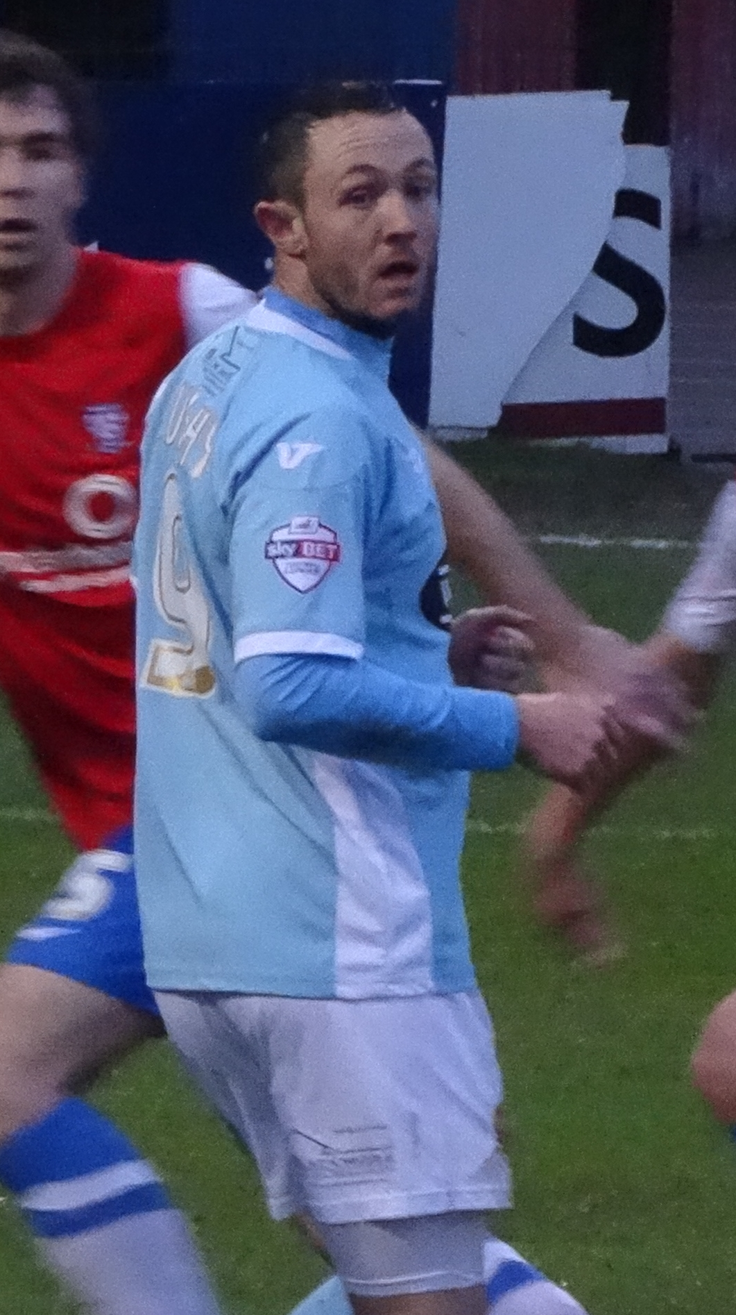 Rhys Murphy playing for Dagenham & Redbridge against York City at Bootham Crescent, York on 4 January 2014